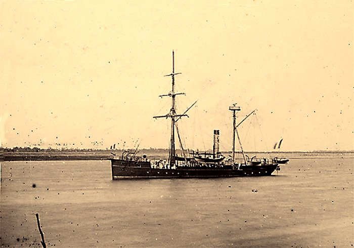 Photograph of the French gunboat Fanfare in Tonkin, 1884